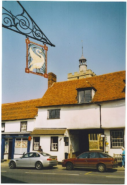 Felsted. felsted church tower peeking over High Street houses. Note arched entrance from street to churchyard.